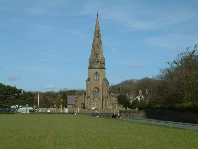 St Mary's Little Crosby, looking north east.